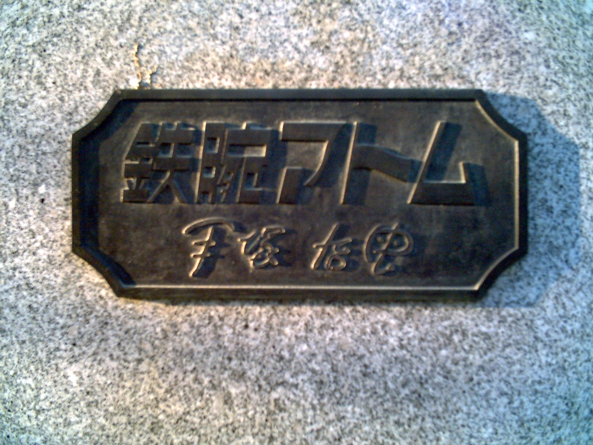 Osamu Tezuka, Japanese anime Astro Boy (Tetsuwan Atom), Hanno city Park, Saitama, Japan.